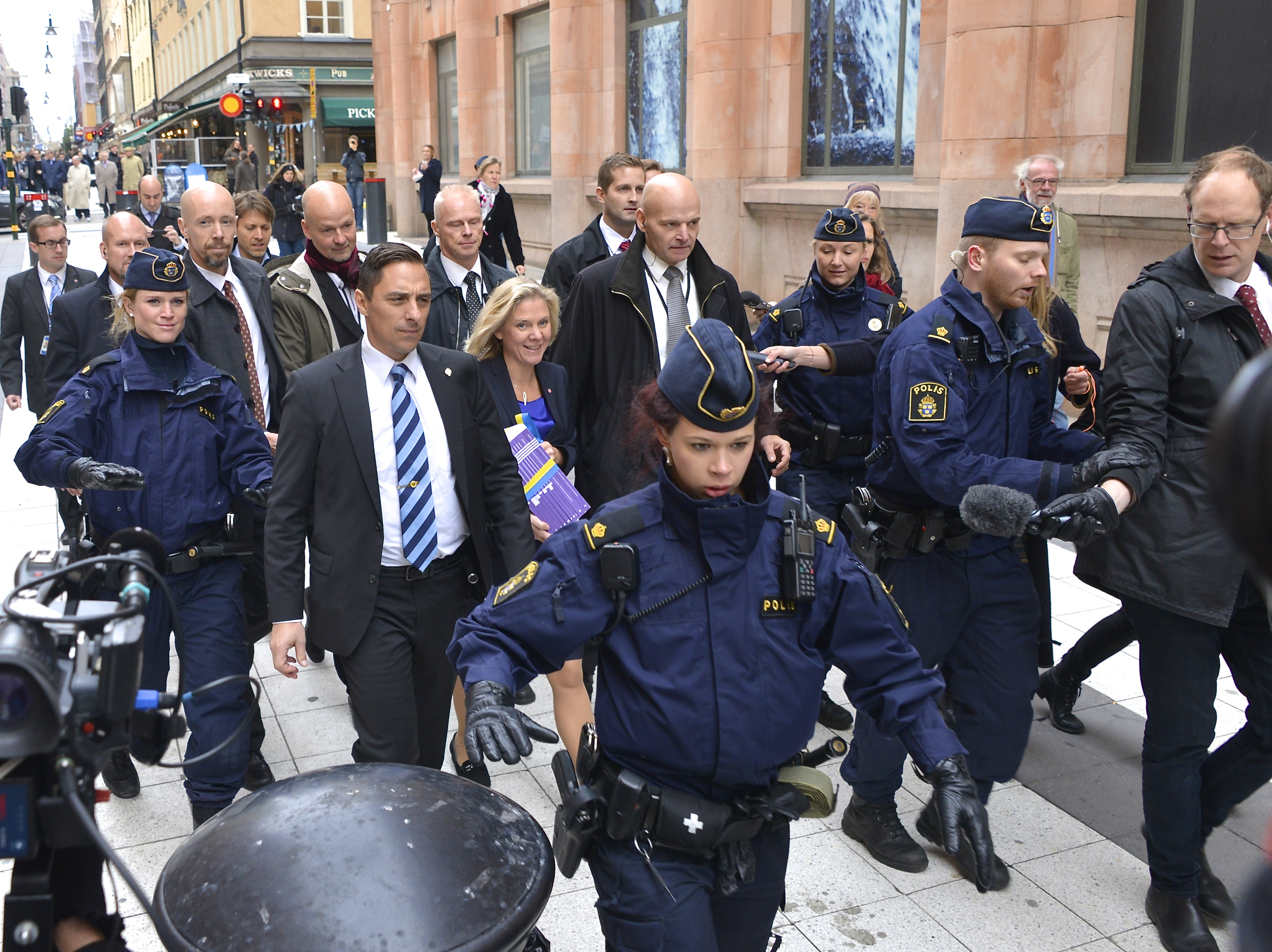 Swedish Minister for Finance Magdalena Andersson, with the 2015 budget proposition, during the walk to Parliament, October 23th, 2014.